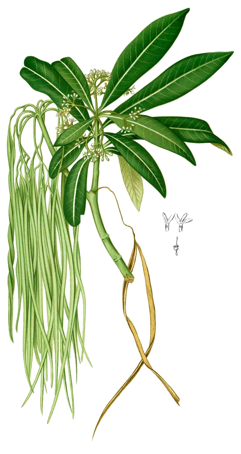 Plate from book